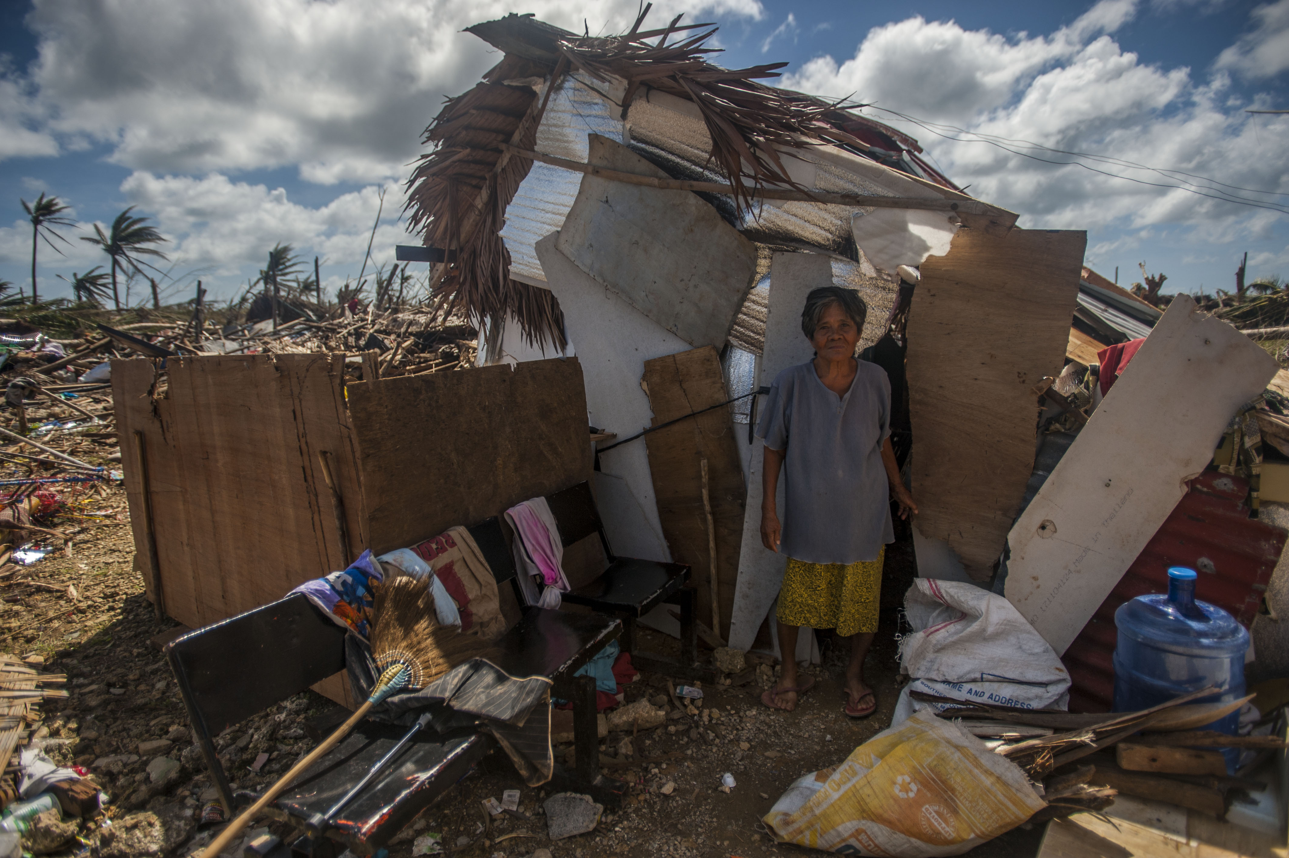 131115-N-BD107-734 GUIUAN, Eastern Samar Province, Republic of the Philippines (Nov. 15, 2013) A Guiuan woman stands outside of her makeshift shack in the aftermath of Super Typhoon Haiyan. The George Washington Carrier Strike Group supports the 3rd Marine Expeditionary Brigade to assist the Philippine government in Operation Damayan in response to the aftermath of Haiyan in the Republic of the Philippines. (U.S. Navy photo by Mass Communication Specialist Seaman Liam Kennedy/RELEASED).